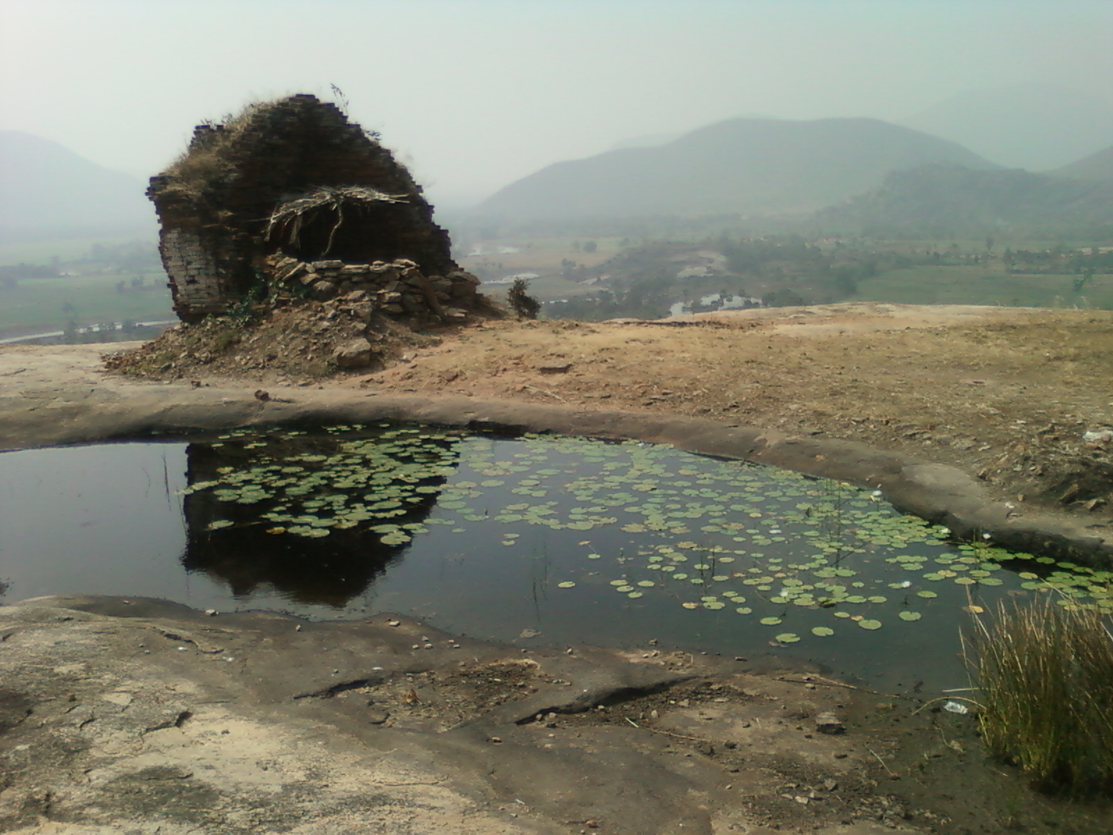 Ruins of a Jain Temple on Bodhikonda in Ramatheertham, Vizianagaram district